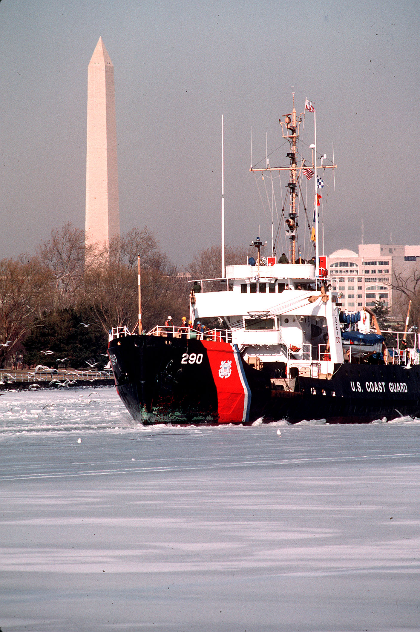 The Coast Guard Cutter Gentian (WLB-290) breaks ice on the Potomac River as it leaves Washington, DC. The Gentian escorted fuel barges into the city during a January cold snap.